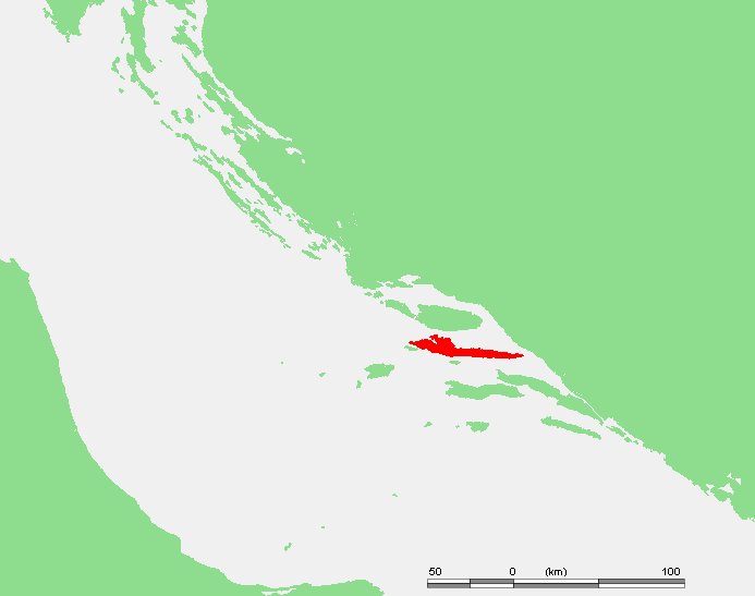 Island of Croatia - Croatia - Hvar.PNG